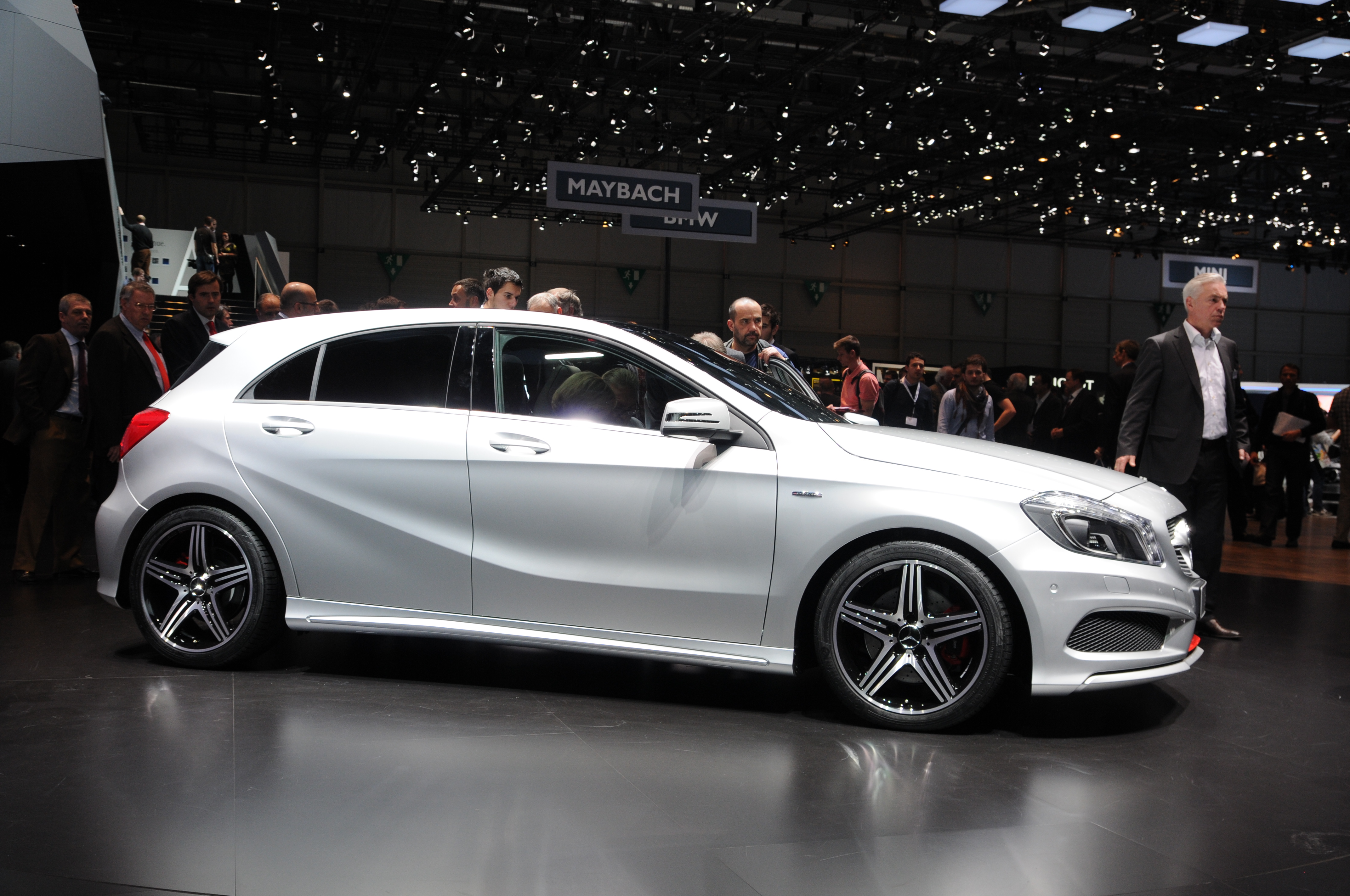 Geneva Motor Show 2012 (photos taken on the second press day)